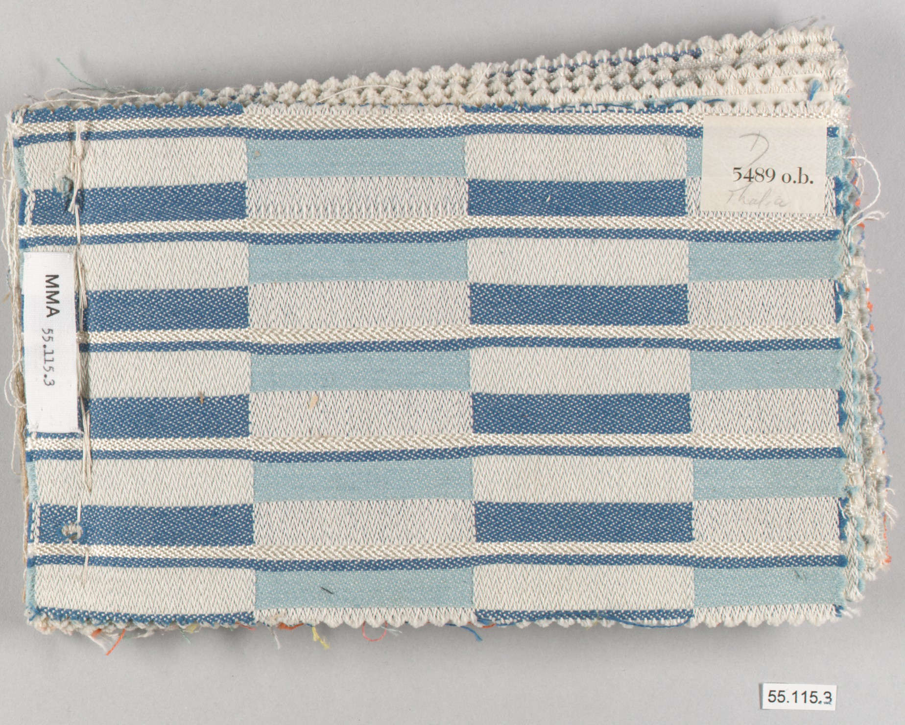 Book; Textiles-Sample Books